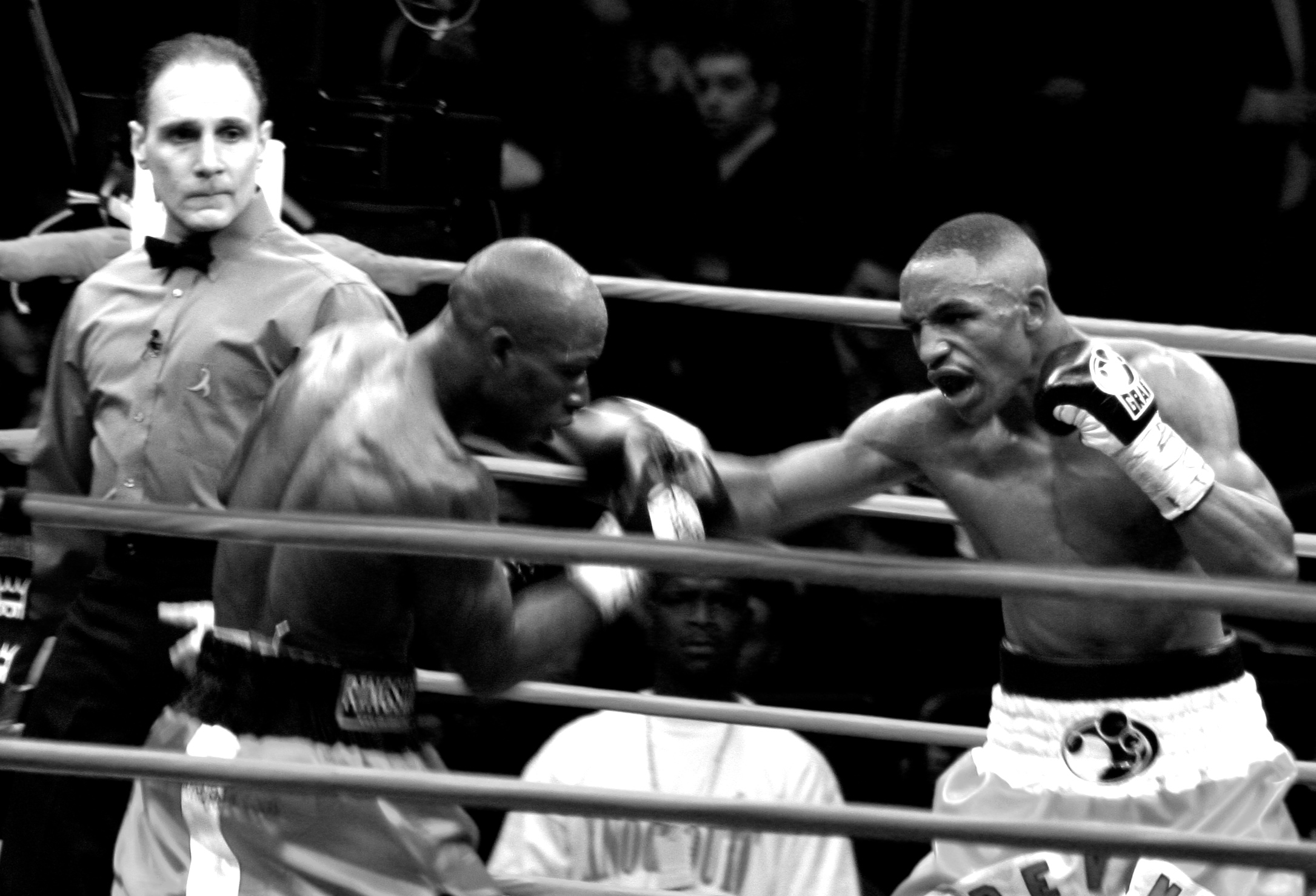 Devon Alexander (on the right) vs. DeMarcus Corley at the Madison Square Garden (New York)